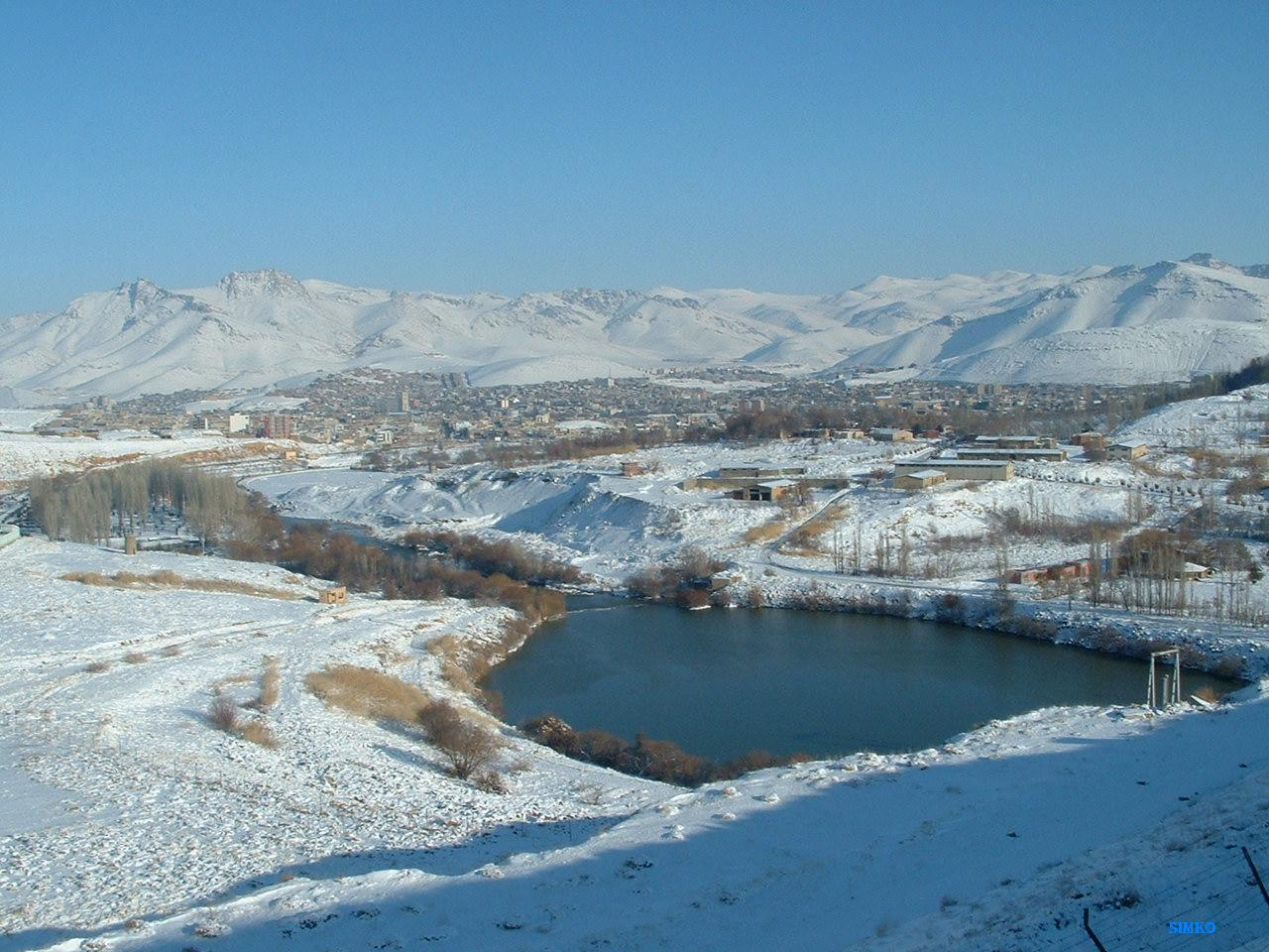 I have taken this picture from Mahabad in Decemeber 2006. I would like this photo to be added to the article about "Mahabad" a kurdish town in Iran. There will be one more picture to follow.